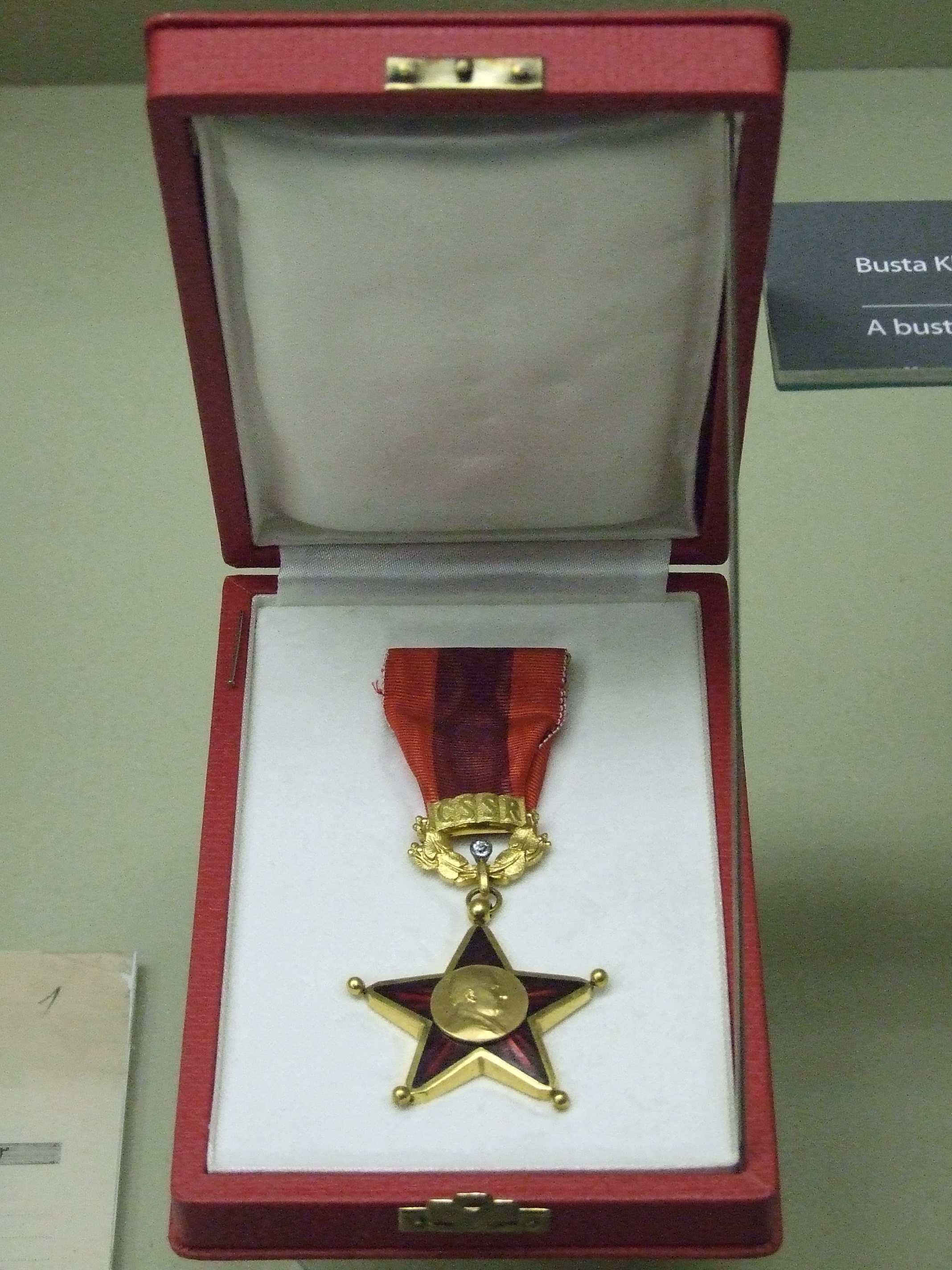 The Republic exhibition, National Museum in Prague